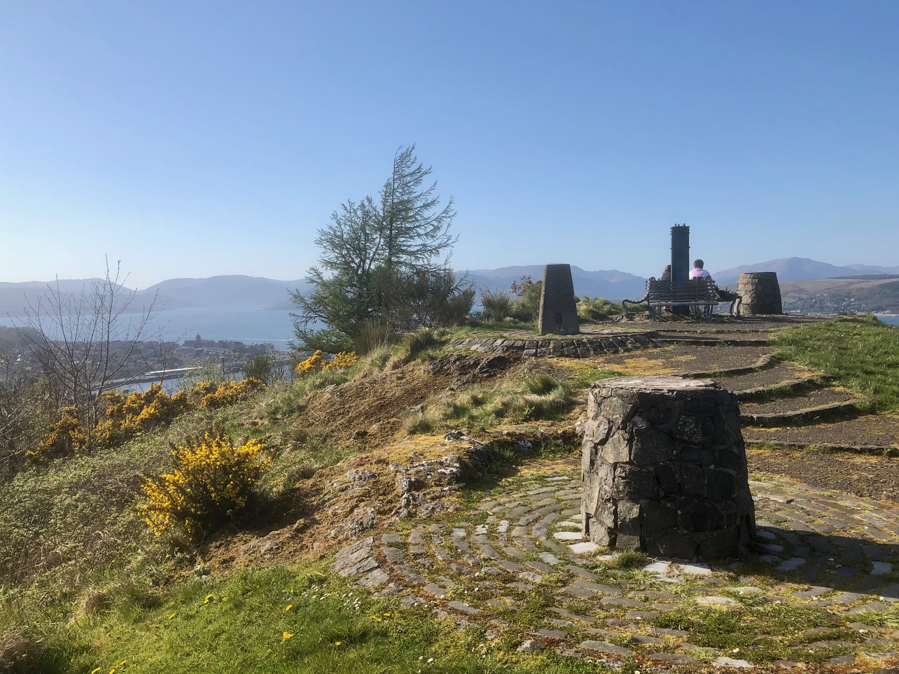 Craigs Top scenic viewpoint at the high point of Lyle Hill in Greenock. To the west over Gourock and the Firth of Clyde are visible in front of the backdrop of the Cowal hills. Two stone cairns were formerly toposcope bases, a concrete trig point stands to left of centre, and benches stand round a cast iron pillar dated 1897, thought to be a flag staff base.